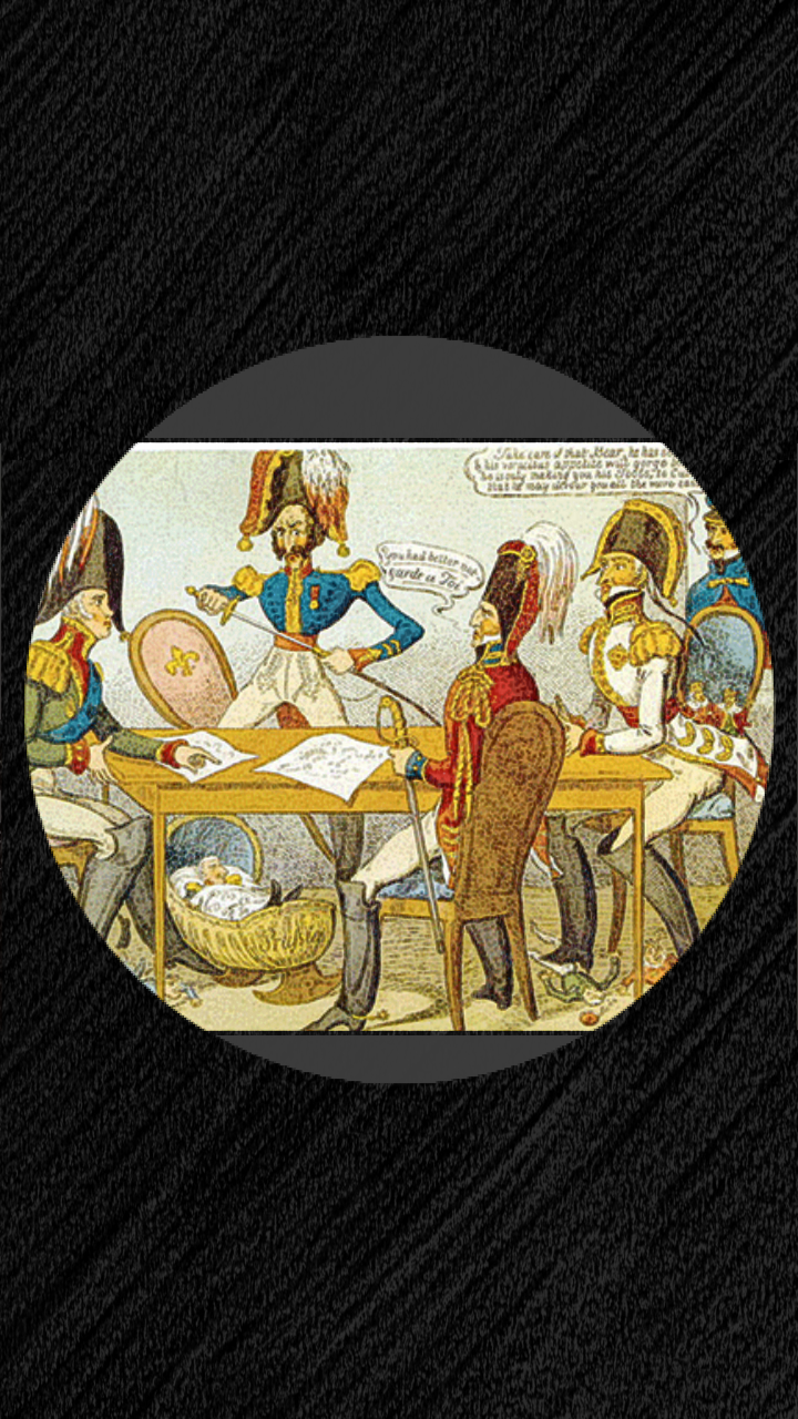 cartoon depiction of escheat